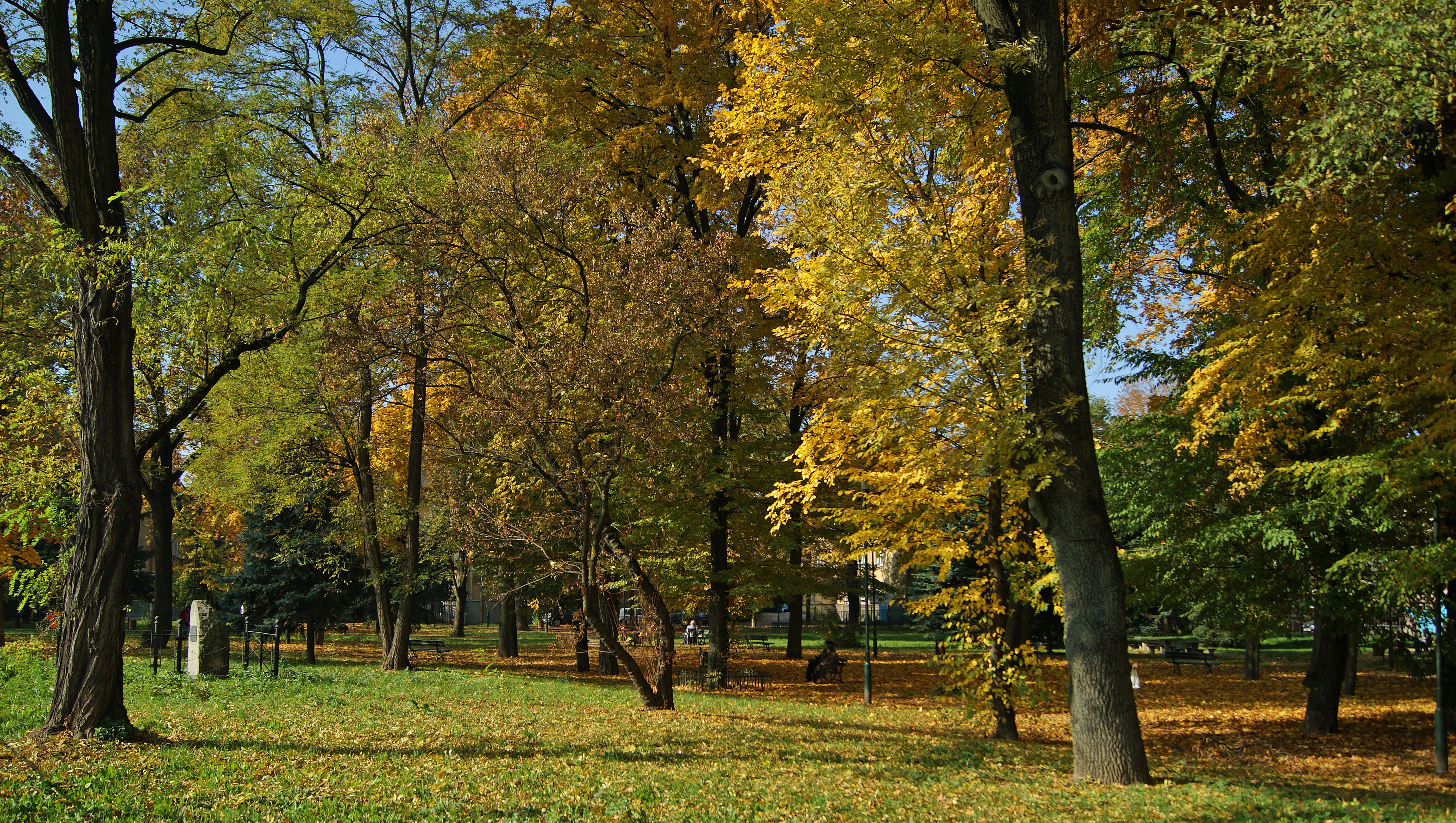 Park (memorial), Młodości Estate, Mogiła, Nowa Huta, Krakow, Poland